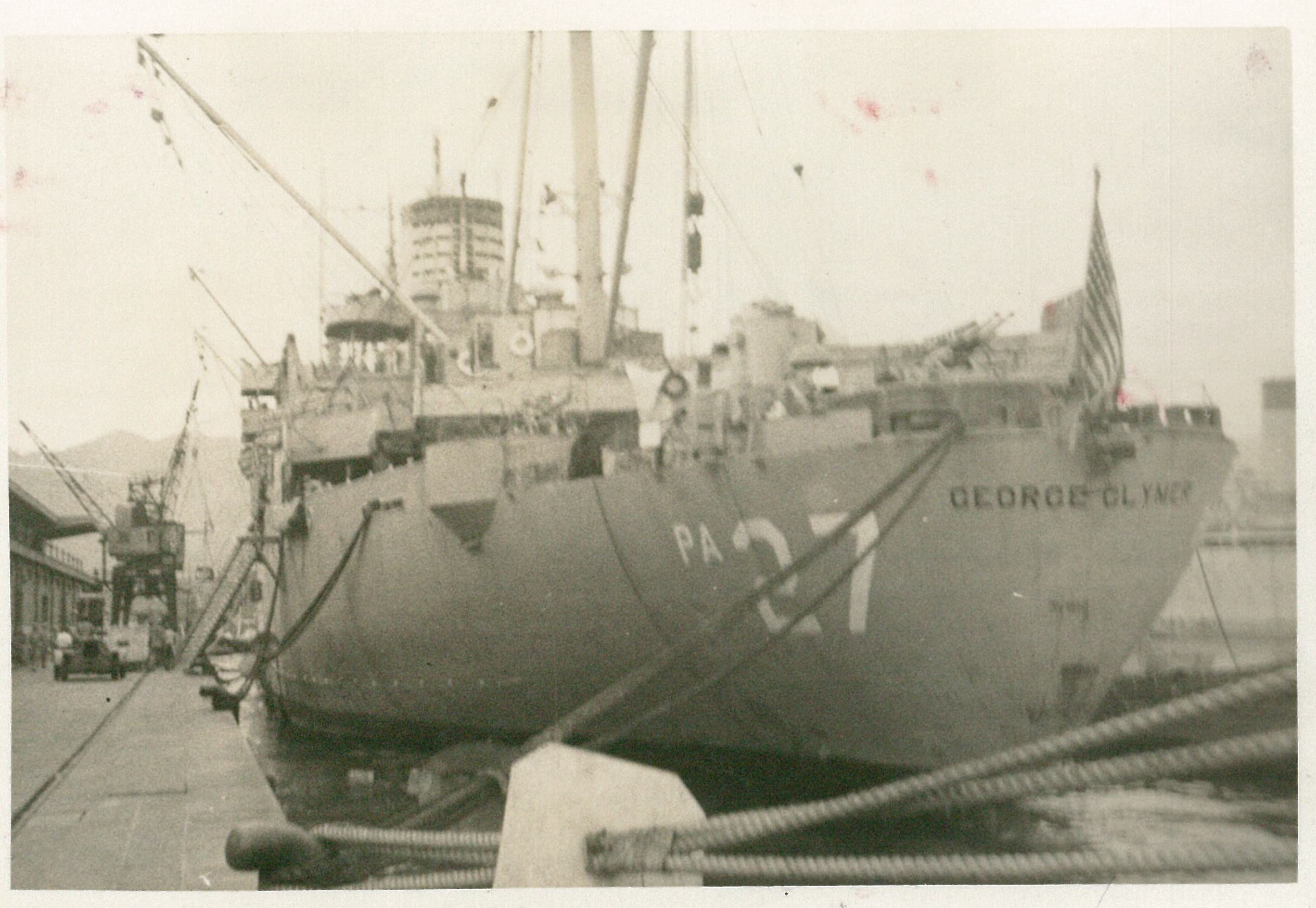 USS George Clymer embarking Marines and their gear pier side in Kobe, Japan on 8 September 1950.